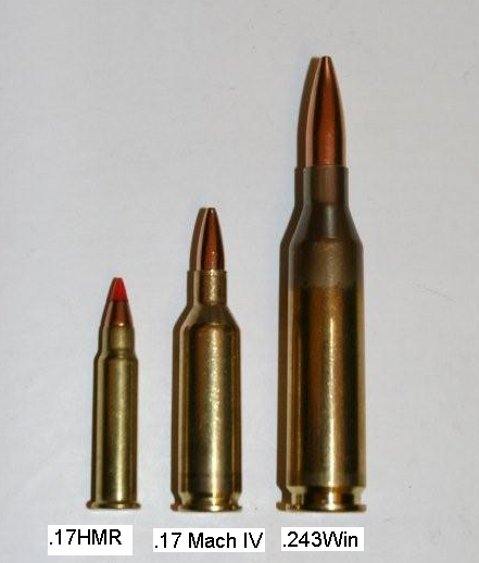 .17HMR vs .17Mach IV vs .243Win